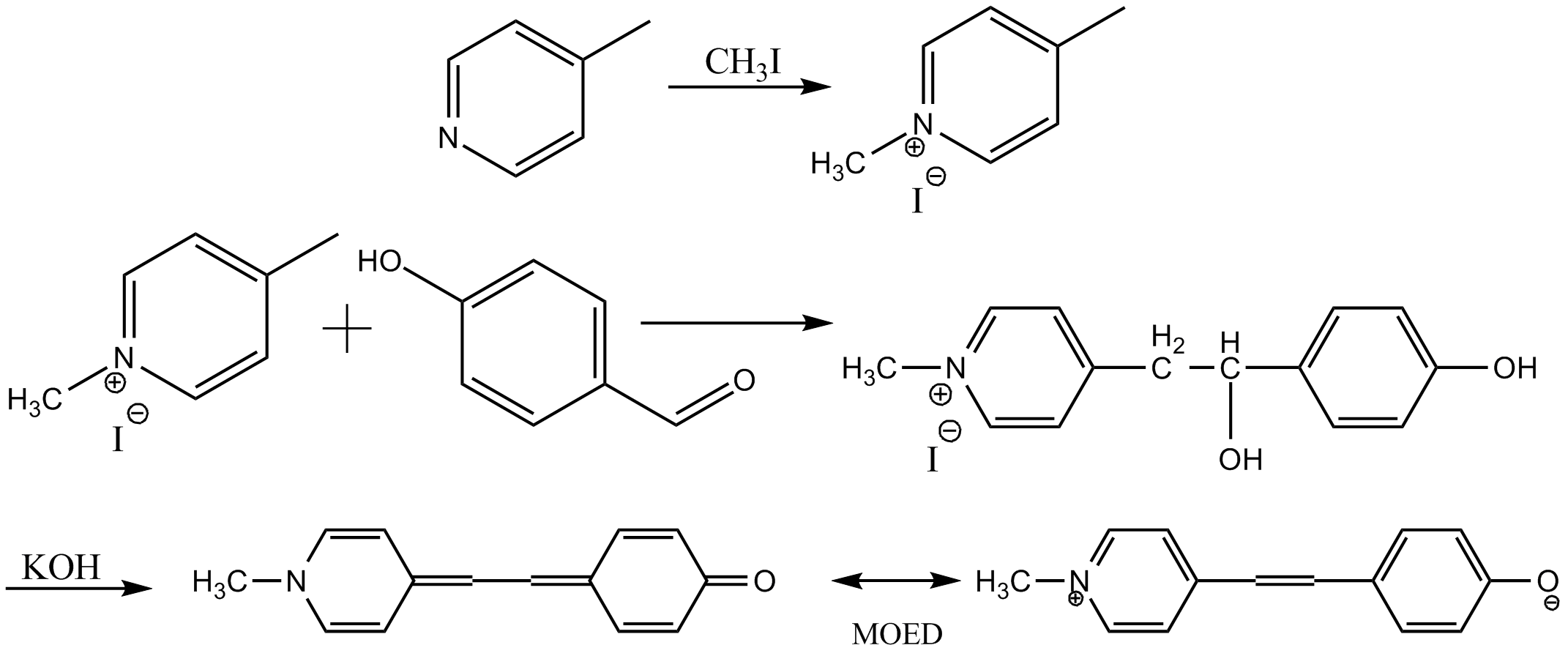 A scheme for the preparation of Brooker's Merocyanine, l-methyl-4-[(oxocyclohexadienylidene)ethylidene]-l,4- dihydropyridine (MOED), from 4-methylpyridine, methyl iodide and 4-hydroxybenzaldehyde.